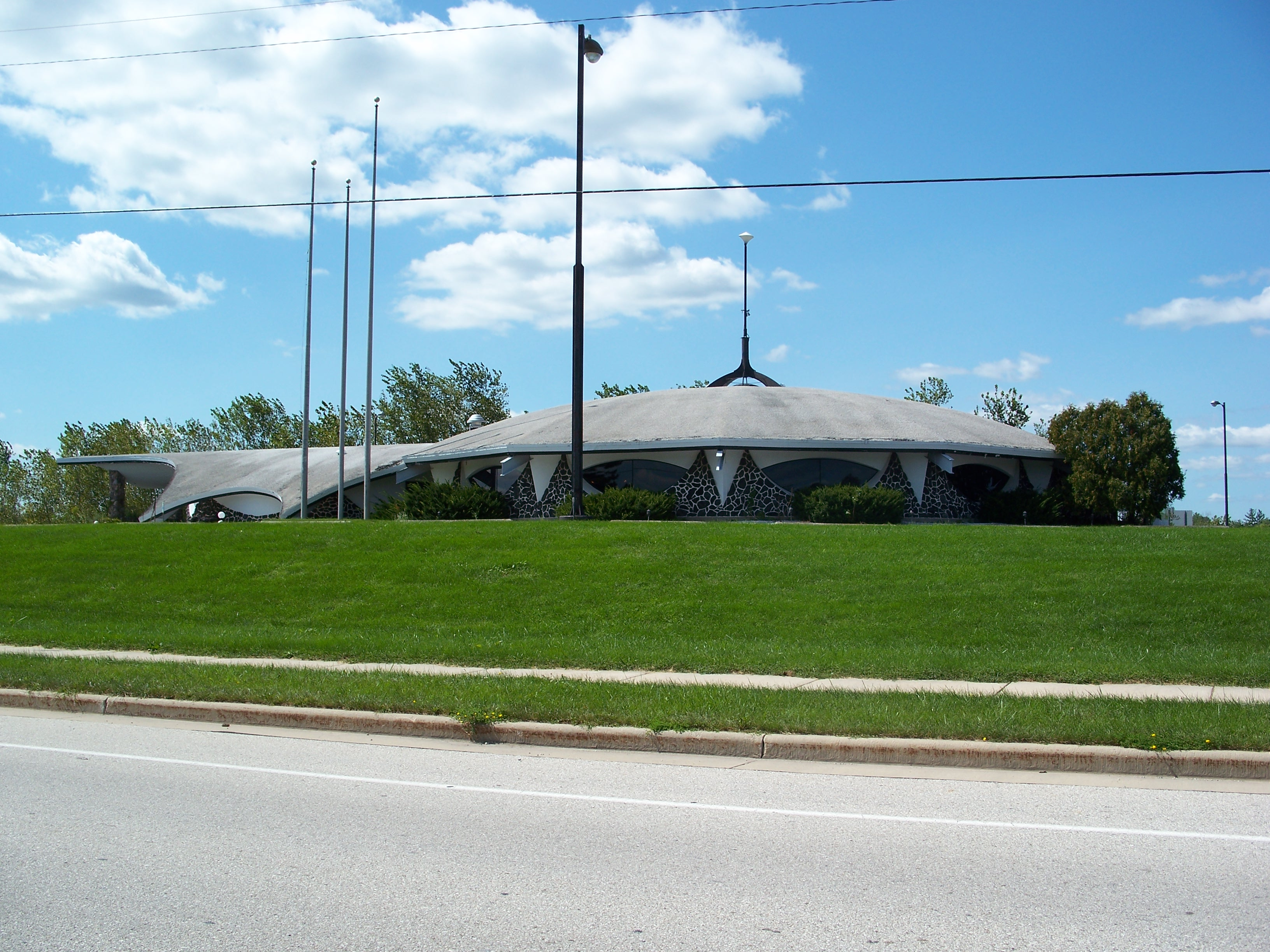 Photo of the Currently Defunct Gobbler Restaurant, Johnson Creek, Wisconsin, August 2010.